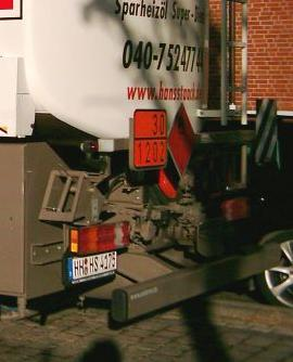 UN number on rear and of tank truck with Diesel